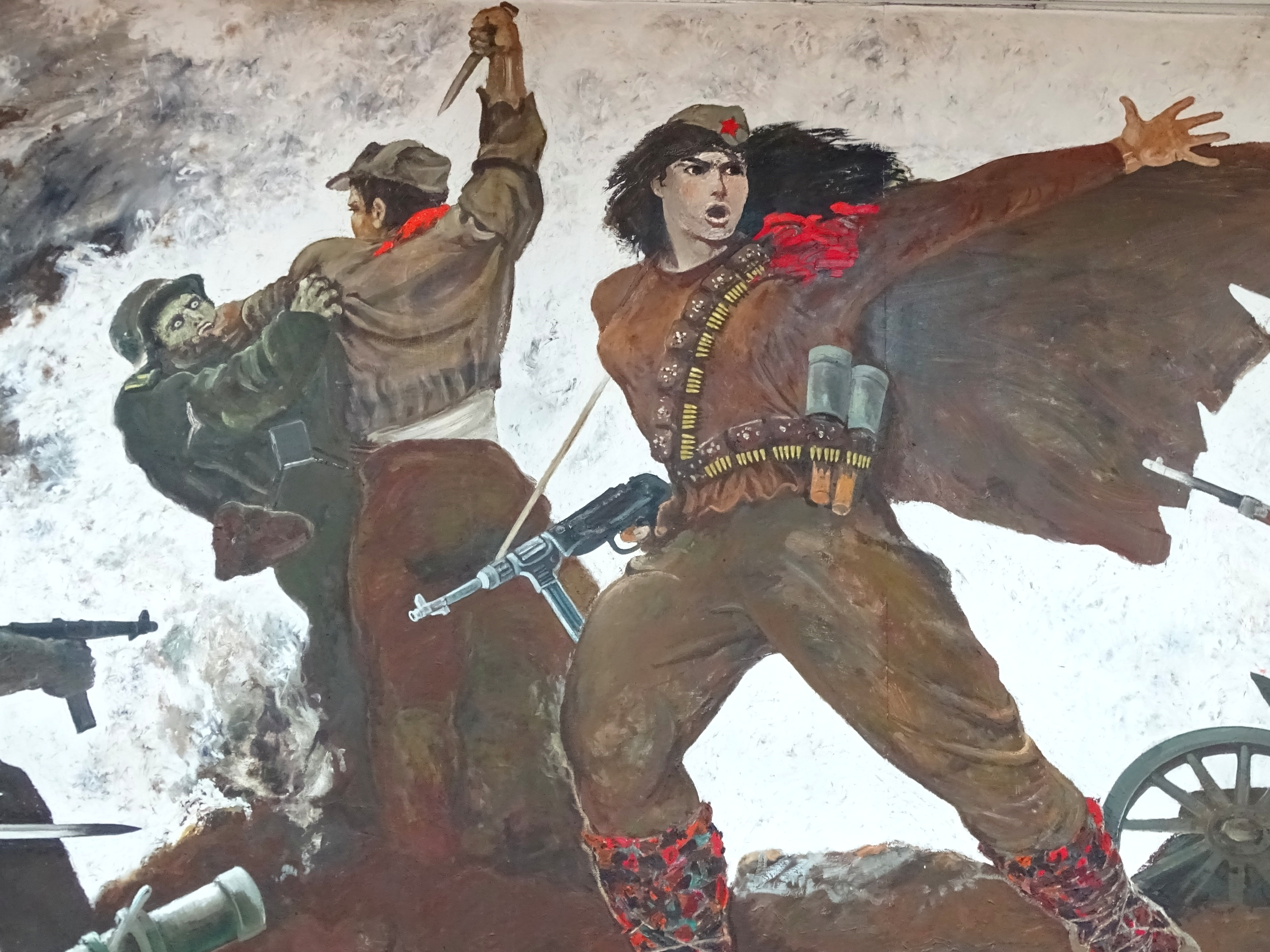 Photos by Adam Jones